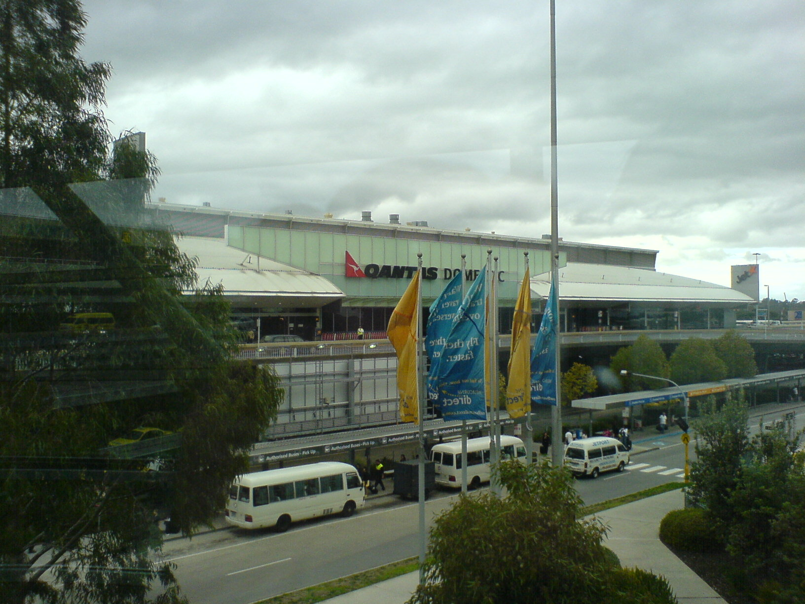 Picture of Melbourne Airport (YMML) - Terminal 1